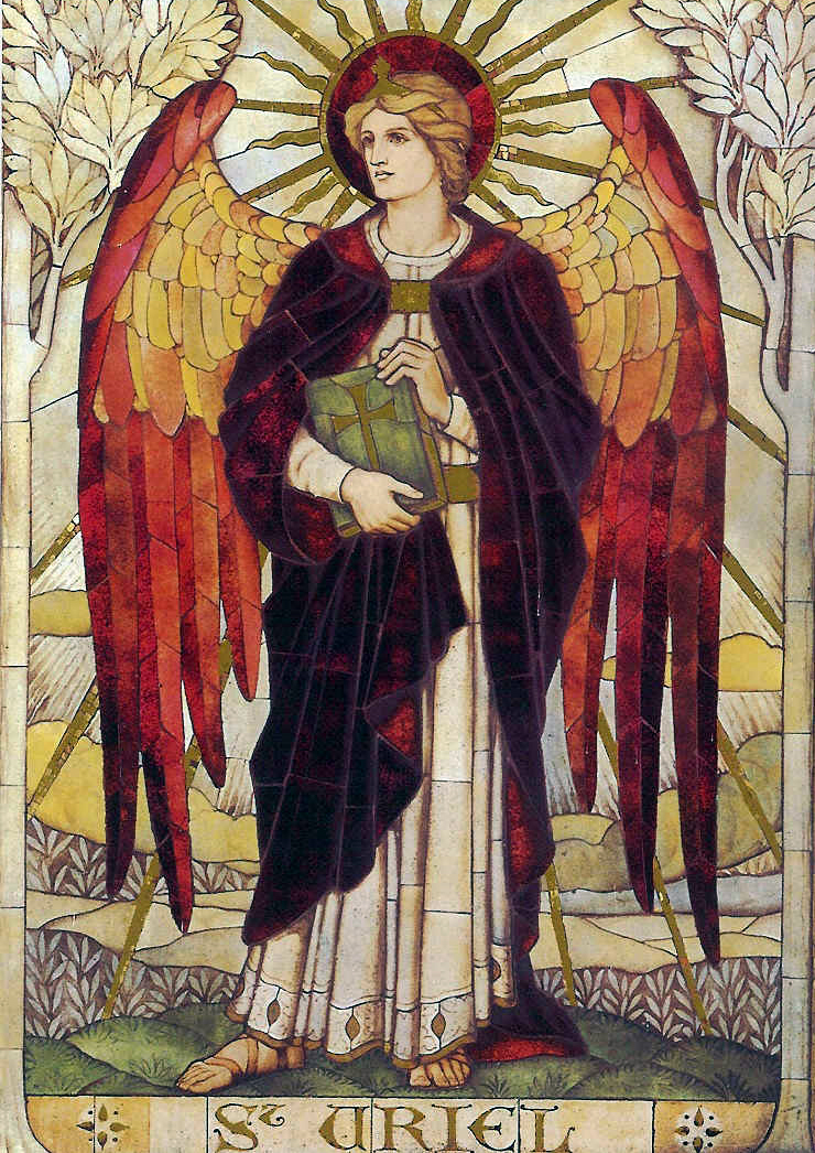 Mosaic of the archangel Saint Uriel in St John’s Church, Boreham Road, Warminster, Wiltshire, England.